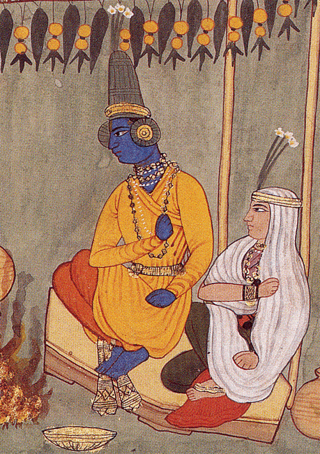 The Wedding of Satyabhama and Krishna from Bhagavata Purana : It's from Alvin Bellak collection of Indian masterpiece paintings, "The Wedding of Satyabhama and Krishna". This page from a dispersed series of the Bhagavata Purana was painted in Rajasthan, probably in Bikaner, c. 1590-1600. The piece is done in opaque watercolor and gold on paper.